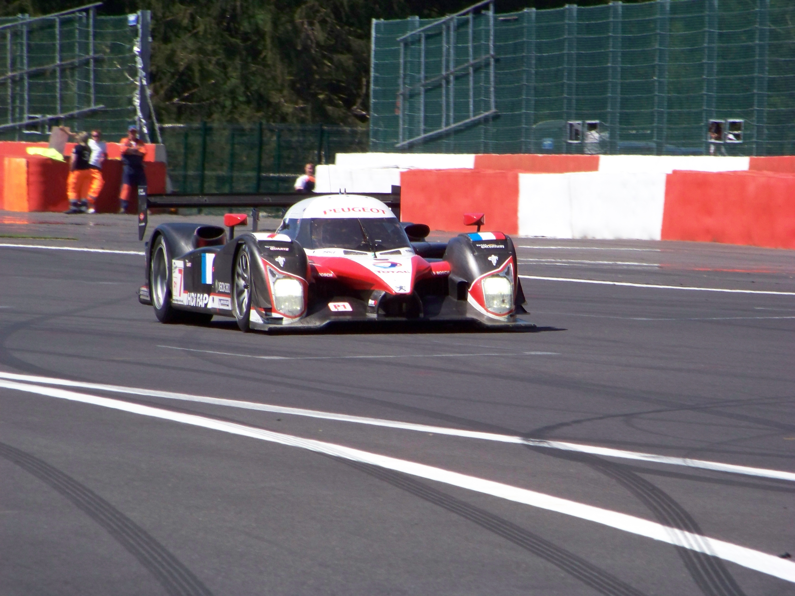 Team Peugeot Total's Peugeot 908 at the 2008 1000km of Spa.